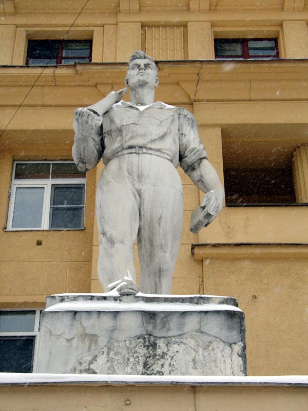 Moscow, Yauzsky boulevard 2, by Ilia Golosov (1936-1941). The building stands on the site of 19th century Khitrovo estate and park - the same Khitrovo who set up infamous Khitrov Market one block west.